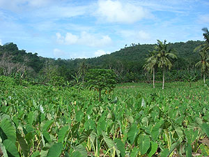 Fogama'a Crater National Natural Landmark, Tutuila, American Samoa